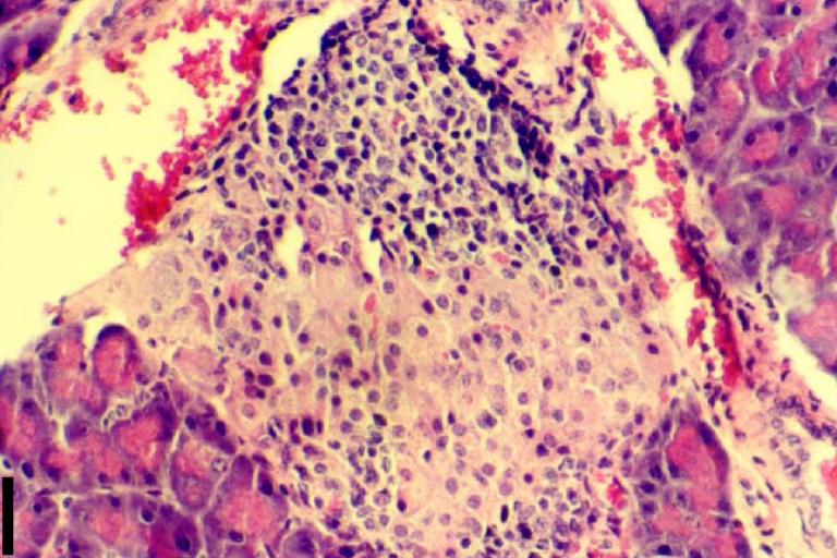 A histological image of an insulitis, an inflammatory infiltration of the islets of Langerhans of the pancreas, which precedes the development of manifest autoimmune diabetes. The image was taken from pancreatic sections of transgenic PEPCK-Ins None-obese diabetic (NOD) mice which where embedded into paraffin and histochemically stained with Haematoxylin and Eosin (HE). The black bar in the lower left corner indicates a distance of 20µm. The image which was uploaded to Wikimedia Commons is a cropped version of the original image to remove an image label from the published version.